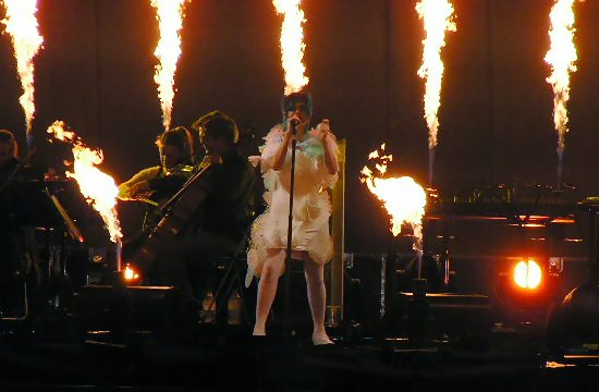 Björk performing at the Fuji Rock Festival in Naeba, Niigata, Japan